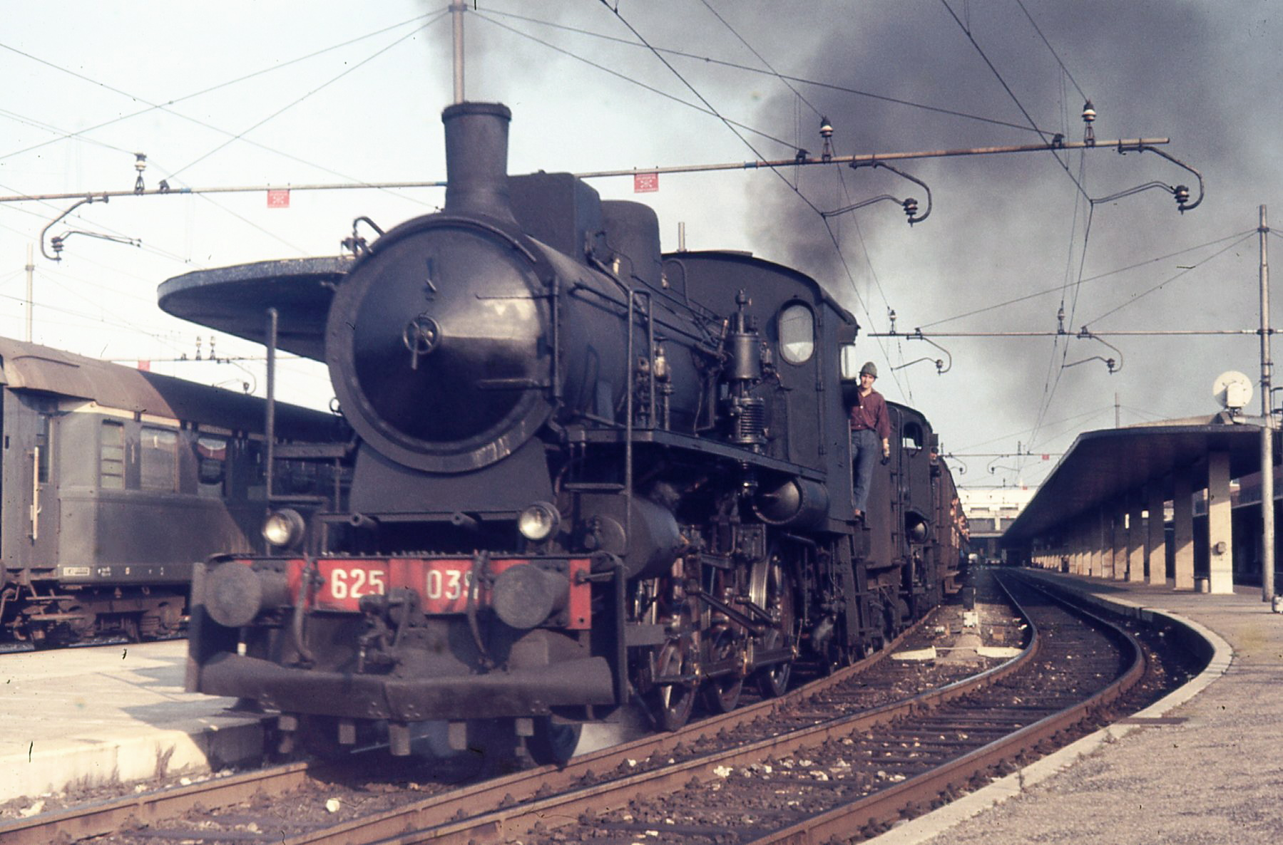 Two 625 class engines on a train from Venice to Bassano, August 1973